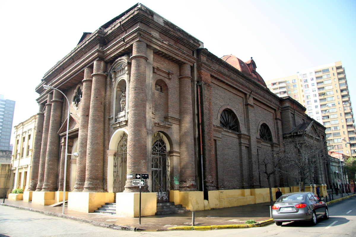 Corner view of San Isidro Labrador Parish